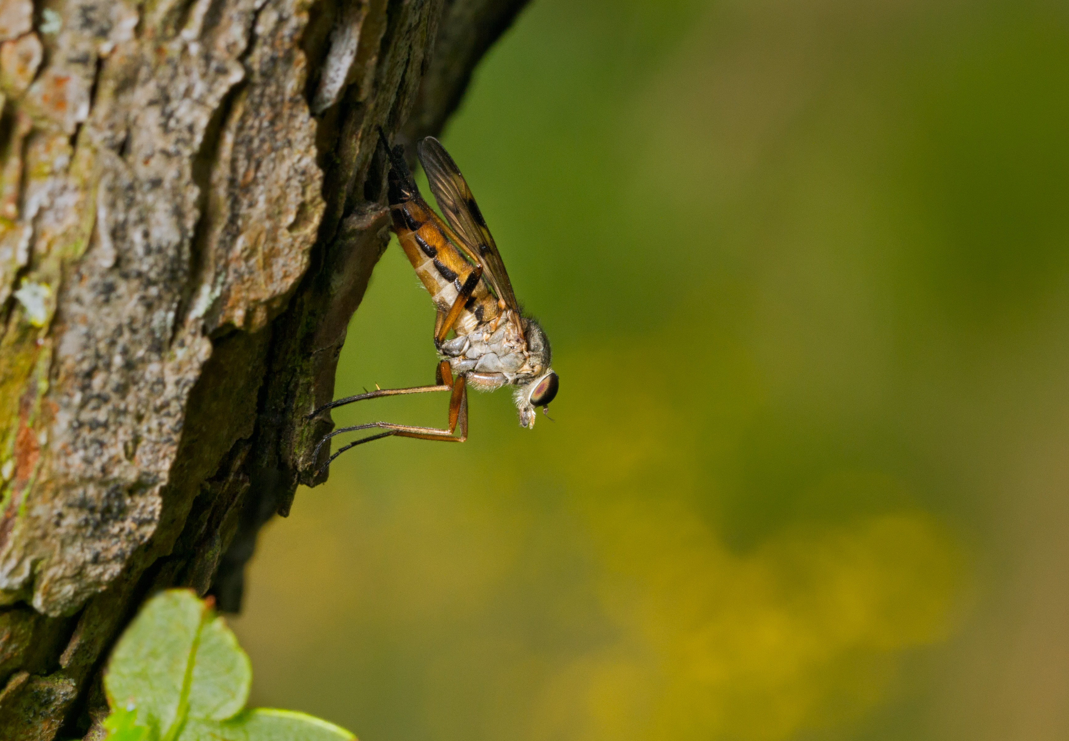 A snipe fly (Rhagio scolopaceus) showing its "downlooker" behaviour